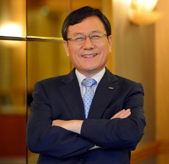 A photo of a Korean distinguished physicist.